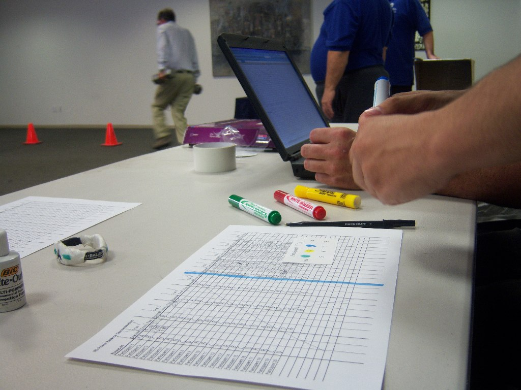 Independent Investigation Group IIG tests Power Balance Bracelets with Dominique Dawes from Yahoo Weekend News